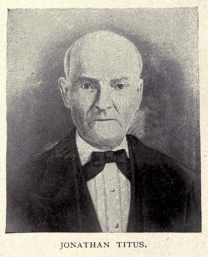 Illustration from the book Sketches in crude-oil; some accidents and incidents of the petroleum development in all parts of the globe, ... 3rd Edition. by McLaurin